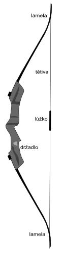 bow